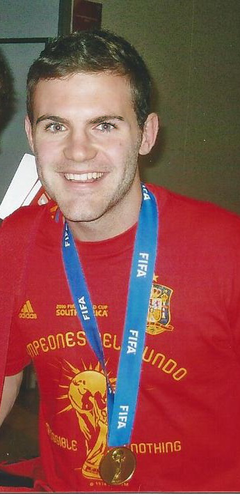 The Spanish footballer Juan Mata in 2010.